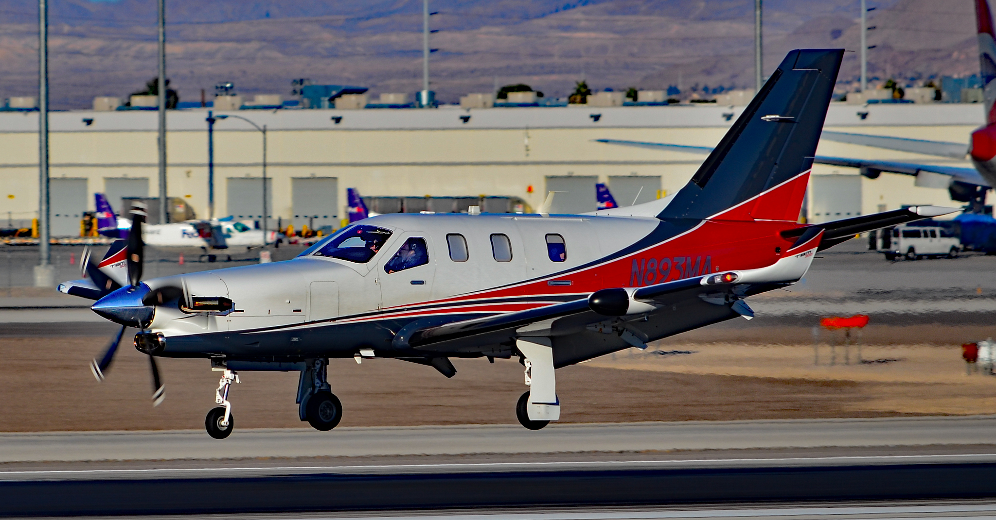 Las Vegas - McCarran International (LAS / KLAS) USA - Nevada, November 29, 2015 Photo: Tomás Del Coro